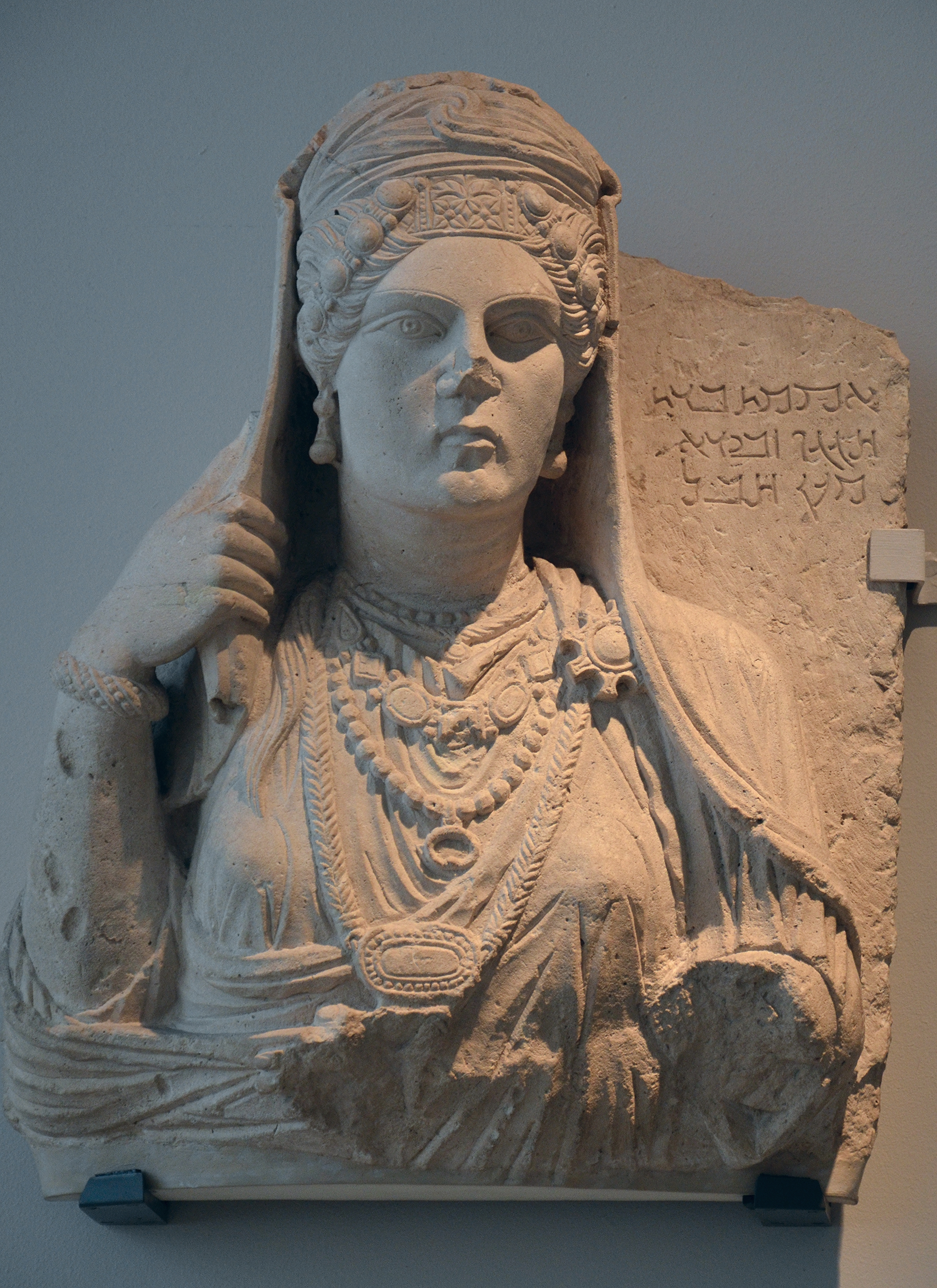 According to the Aramaic inscription, the woman portrayed here is called Aqmat. It describes her as 'daughter of Hagagu, descendant of Zebida, descendant of Ma'an. Alas!'. The cry of despair reflects the fact that this is a funerary monument. Aqmat, the dead woman, is shown wearing heavy and elaborate jewellery. She adjusts her himation (cloak) which she wears over her headdress as a veil. From the first century BC Palmyra grew rich from the caravan trade which linked the Gulf and the Mediterranean. The city was incorporated into the Roman Empire by the end of the first century AD. In the third century, under Queen Zenobia, Palmyrene troops took control of Syria, conquered Egypt and attempted to take Asia Minor (now Turkey). In AD 272 the Emperor Aurelian defeated the Palmyrenes, captured Zenobia and took her to Rome. Palmyra was destroyed after a second insurrection in AD 273. Tombs were built outside the city for the wealthier citizens in the form of towers of several stories, single-storey house tombs, and underground rock-cut tombs called hypogea. They contained compartments (cubicula) set in the walls to hold the body, which was often mummified. Each cubiculum was sealed with a plaque bearing a sculptured portrait such as this. The jewellery was rarely picked out in colour, but the white appearance of the dresses is probably misleading as they were originally eichly coloured. Each had a brief dedicatory inscription. They were known as nefesh ('soul' or 'personality') and enabled the owner to exist in the next world. D. Collon, Ancient Near Eastern art (London, The British Museum Press, 1995) M.A.R. Colledge, The art of Palmyra (London, 1976)